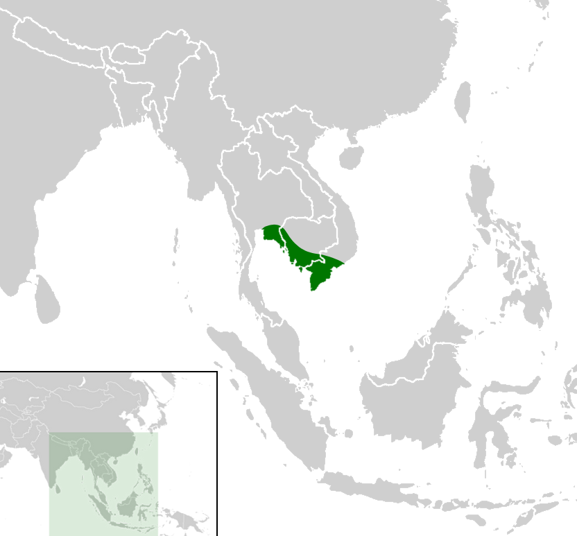 Asia Blank map